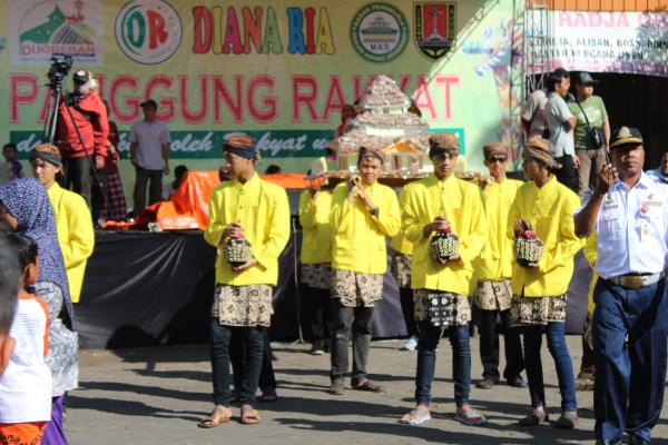 Iring-iringan Gunungan roti Ganjel Rel